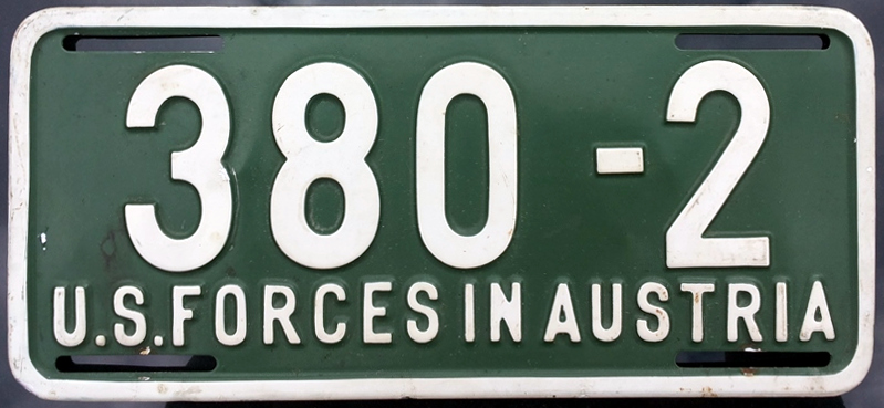 USFA License plates of Austria